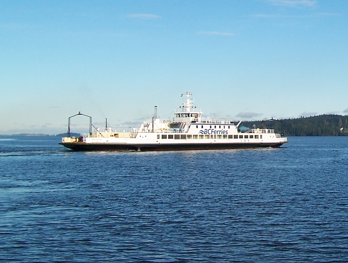 Quinitsa at Buckley Bay, November 07